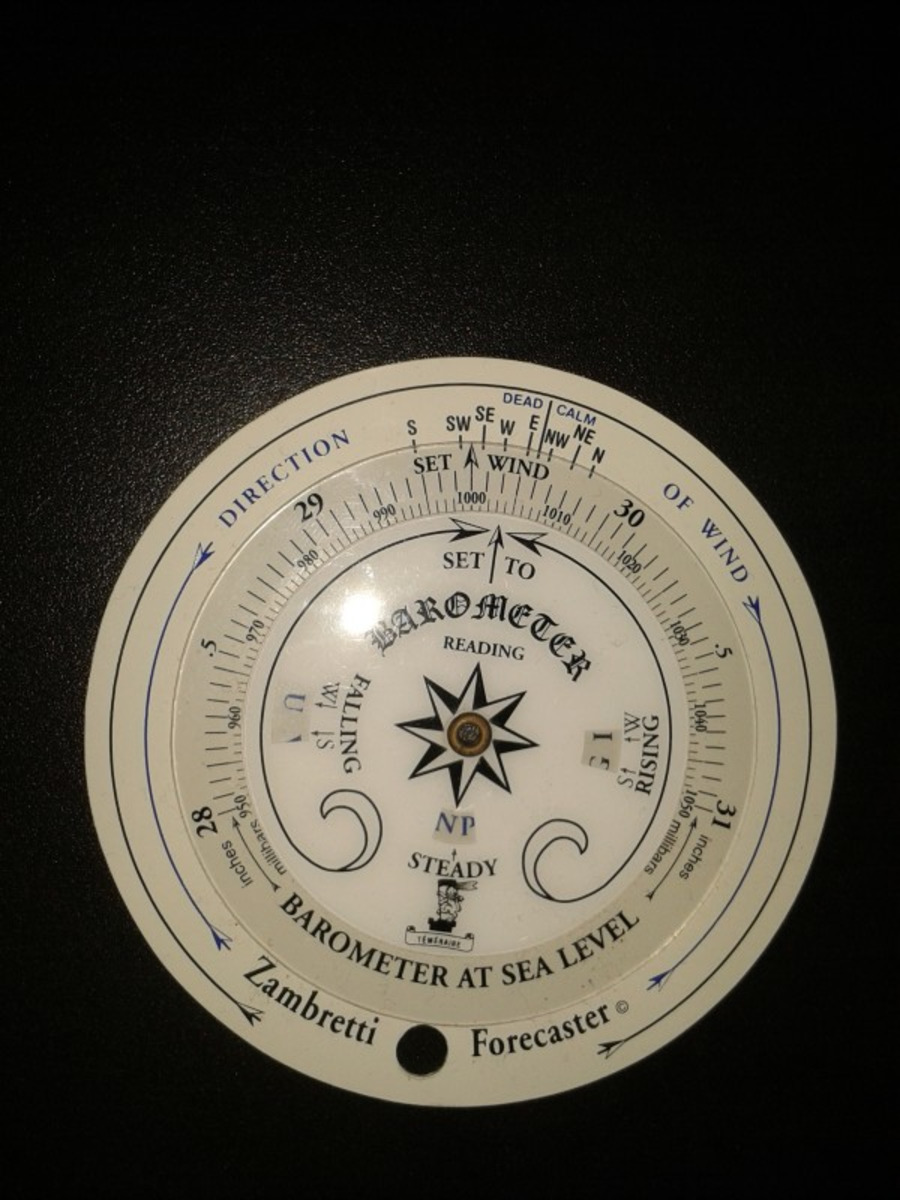 This is a the face of the Zambretti Forecaster.